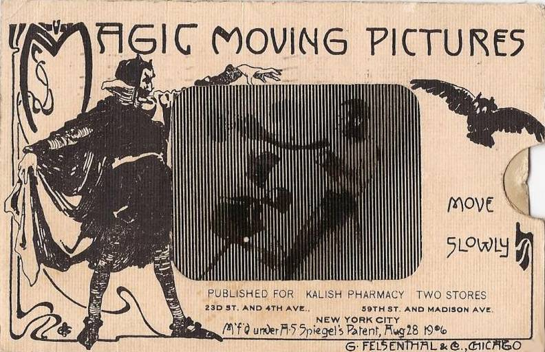 A Magic Moving Pictures promo card by G. Felsenthal & Co. for Kalish Pharmacy Two Stores